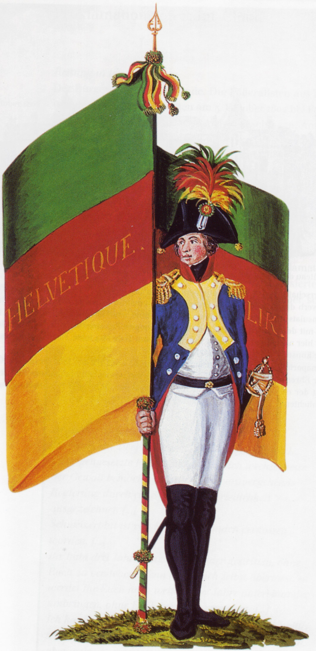 Gouache of a flag bearer from St. Gallen with the flag of the Helvetic Republic. The front side is written in German ("HELVETISCHE REPUBLIK.") and the reverse in French ("RÉPUBLIQUE HELVÉTIQUE.").